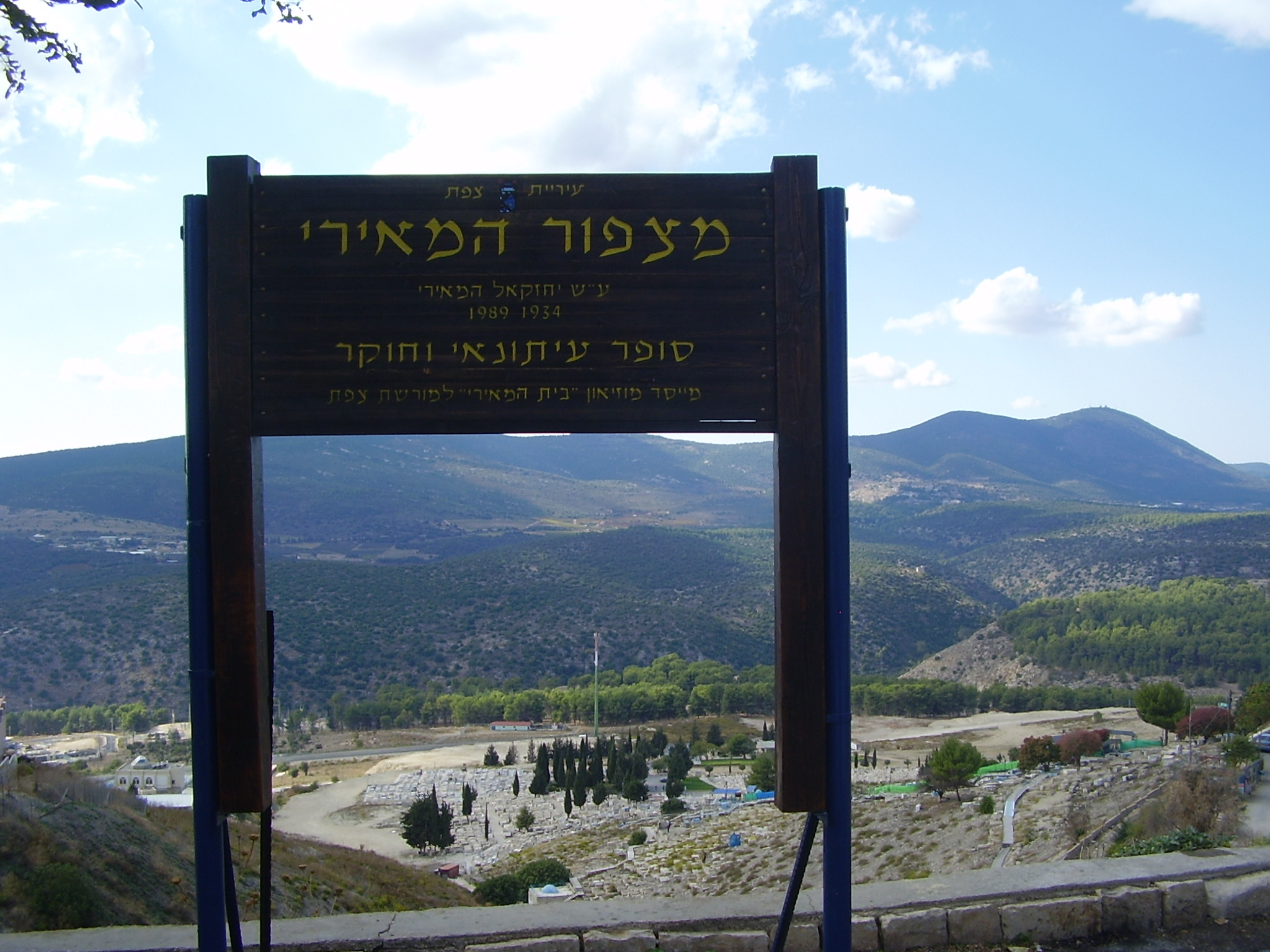 hameiri lookout in safed. to the right is mt. meron